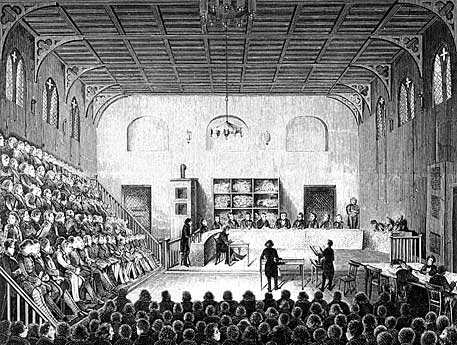 The process of Berlin (ger. Berliner Polenprozess) - a lawsuit against 254 polish participants in the conspiracy in Prussia.